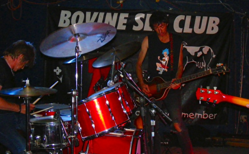 The Ugly(Band)- at the Bovine Sex Club, July,12-2008 (1st-reunion)pictured are Tony Vincent-drummer, Sam Ferrara-bass, photo by P.B.Toman